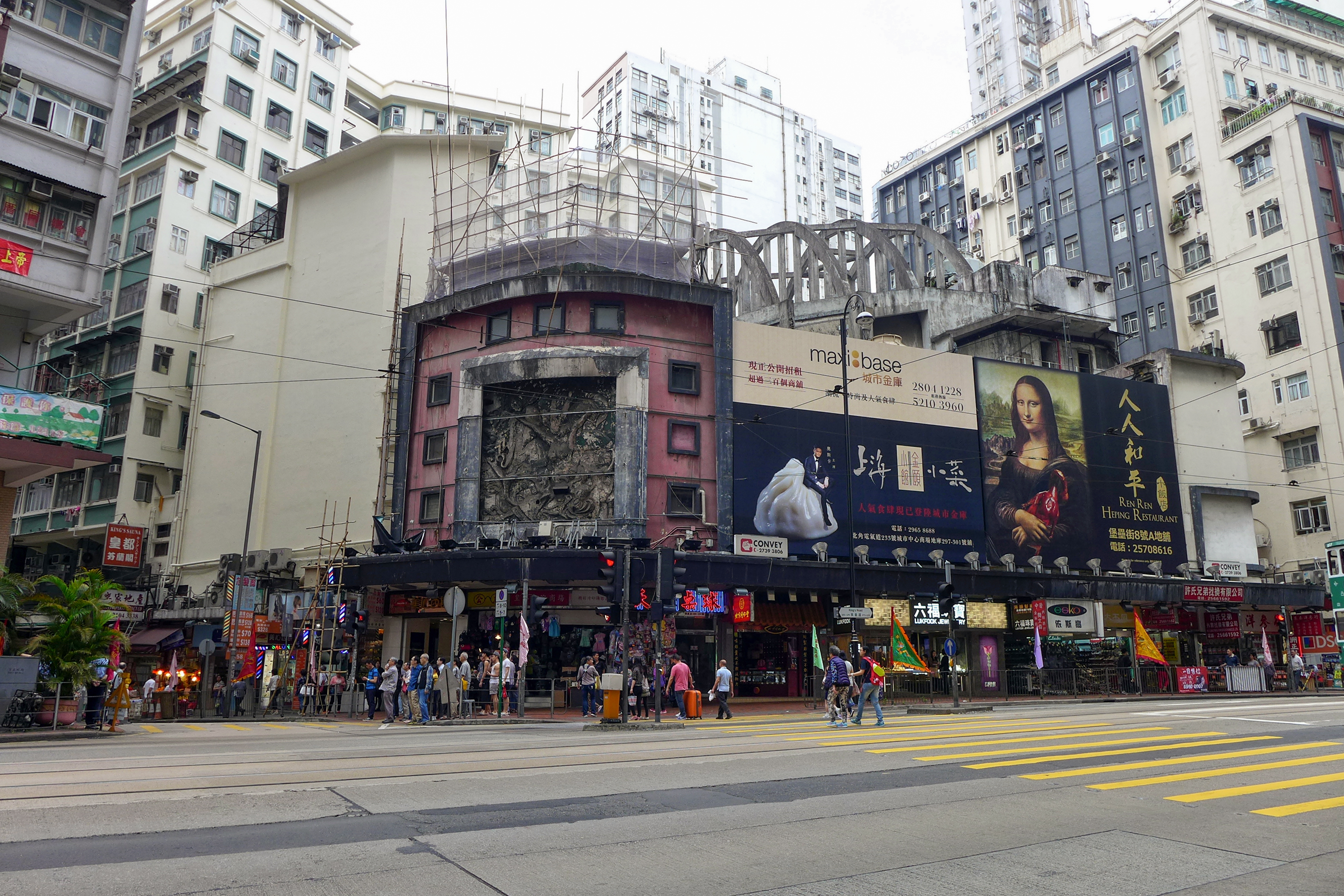 State Theatre Building